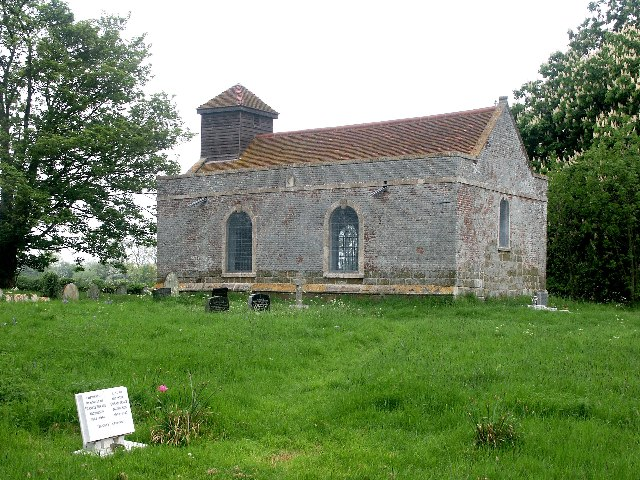 Old All Saints Church Great Steeping. The All Saints old church, which is now in the hands of The Churches Conservation Trust, was built and consecrated in 1748. Markings of the position of a roof show on the east wall and indicate the church once had a chancel.